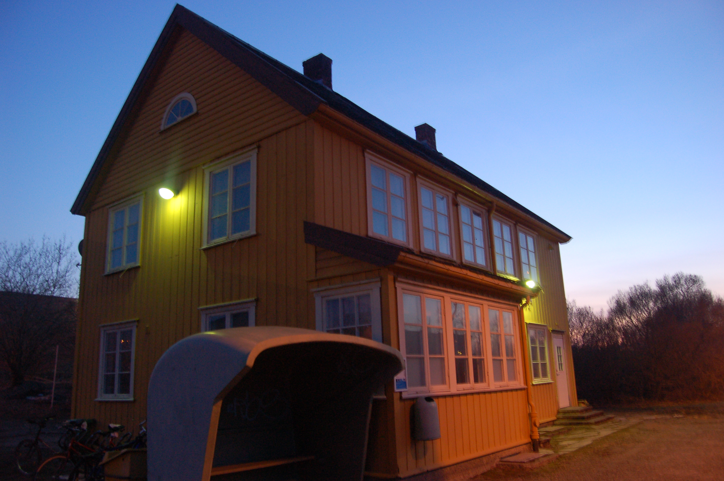 Leangen Station on Nordlandsbanen in Trondheim, Norway. Building erected 1944. (not the first station building here). Architects: Gudmund Hoel, Bjarne Friis Baastad